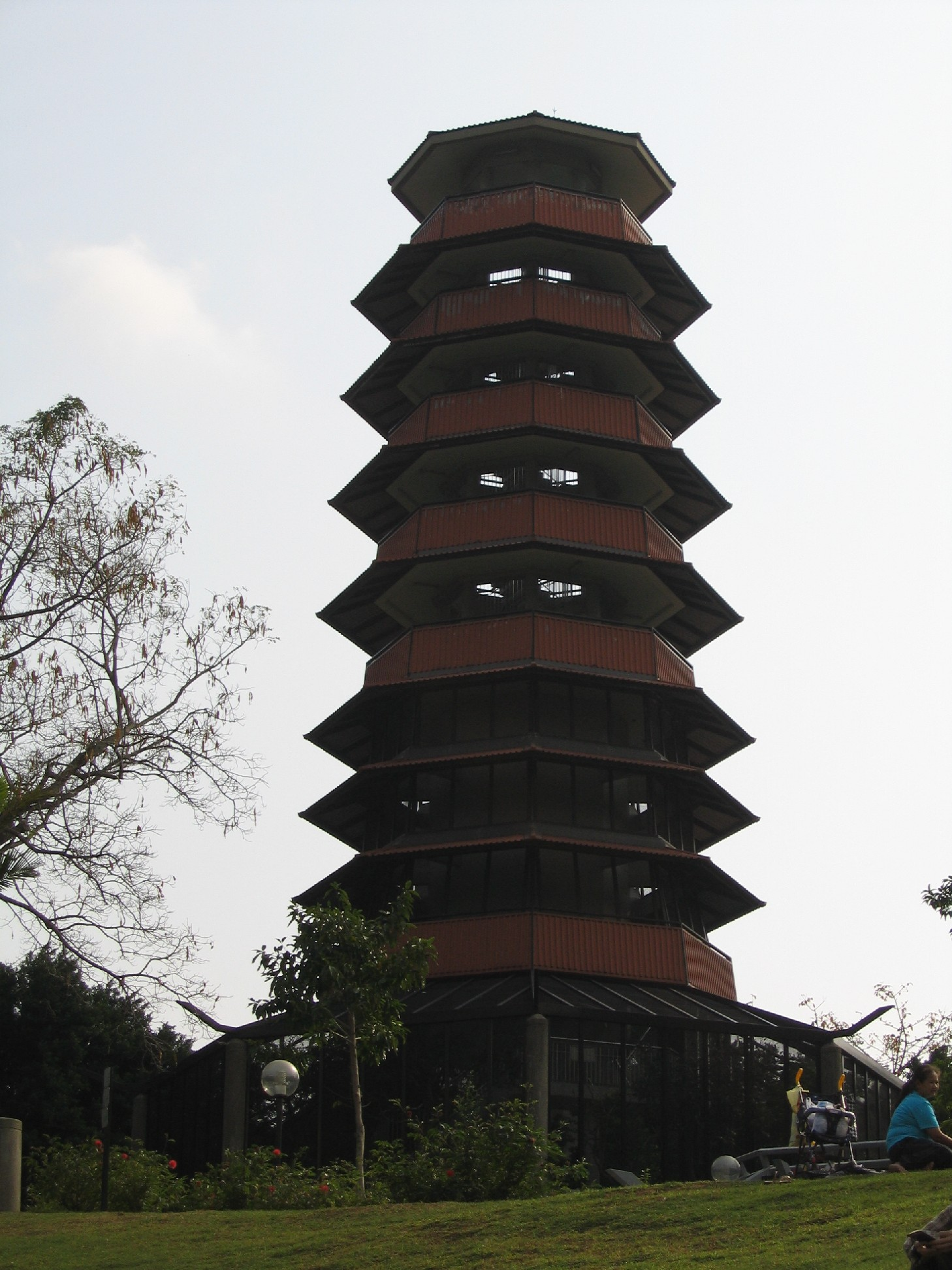 Aviary Pagoda ©Tom Wong User:58siukin Wong,2004